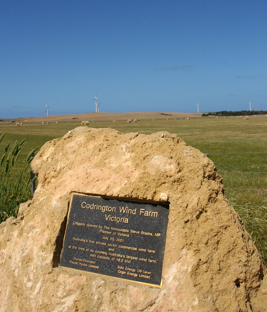 Codrington Wind Farm, Victoria. Photo by me on 29/11/2006.